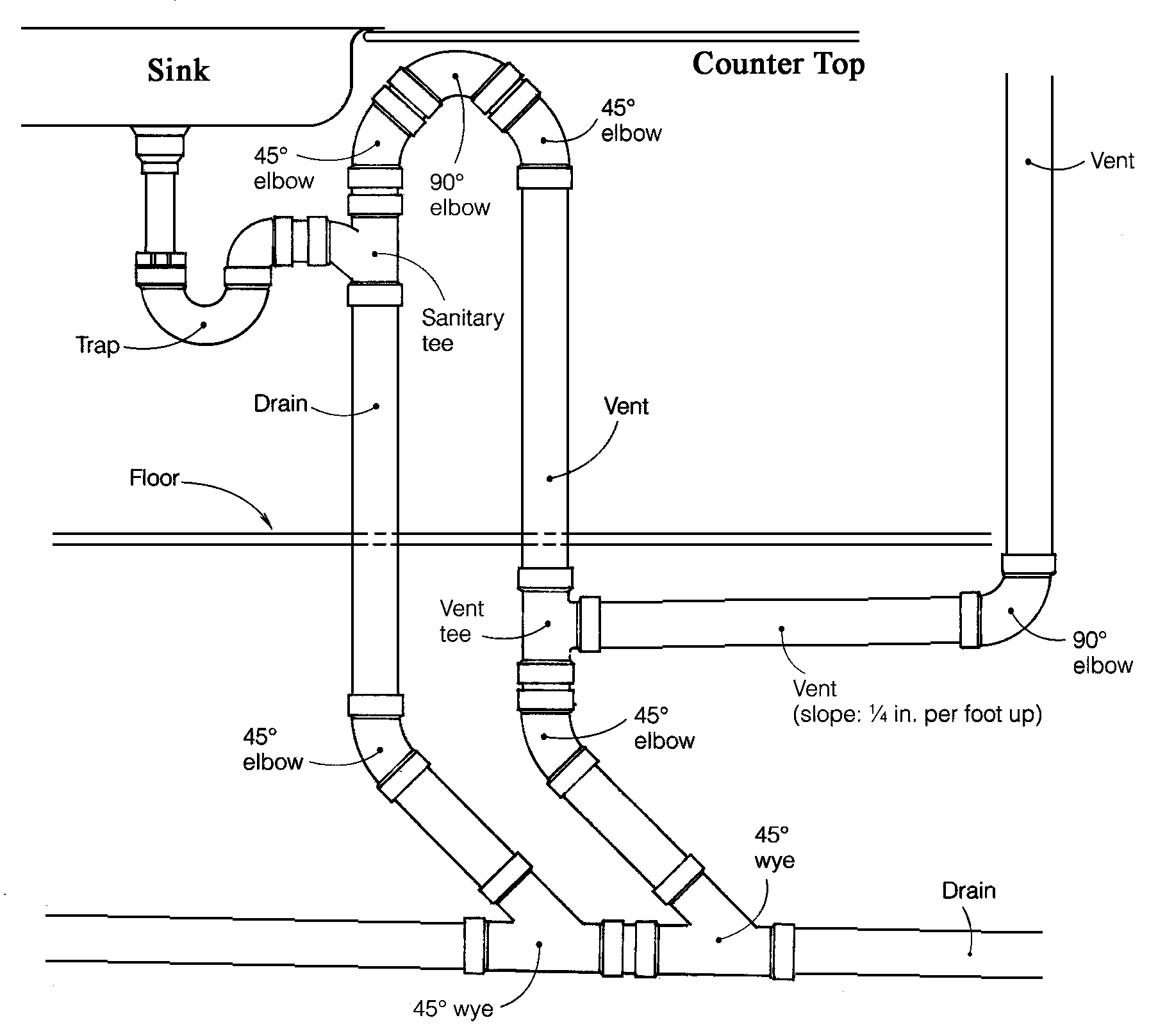 Replaces Chicago_loop_plumbing_01.JPG I have cleaned up a bit Chicago_loop_plumbing_01.JPG and have used PNG compression which is better suited to this type of image as it yields better quality and much smaller file size.